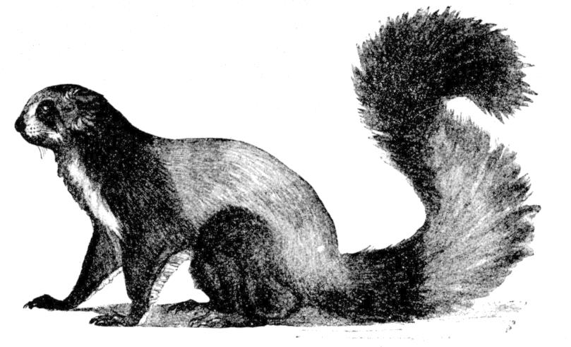 Fig. 234.—Flying Squirrel. Pteromys alborufus. × 1⁄5. Now referred to genus Petaurista.